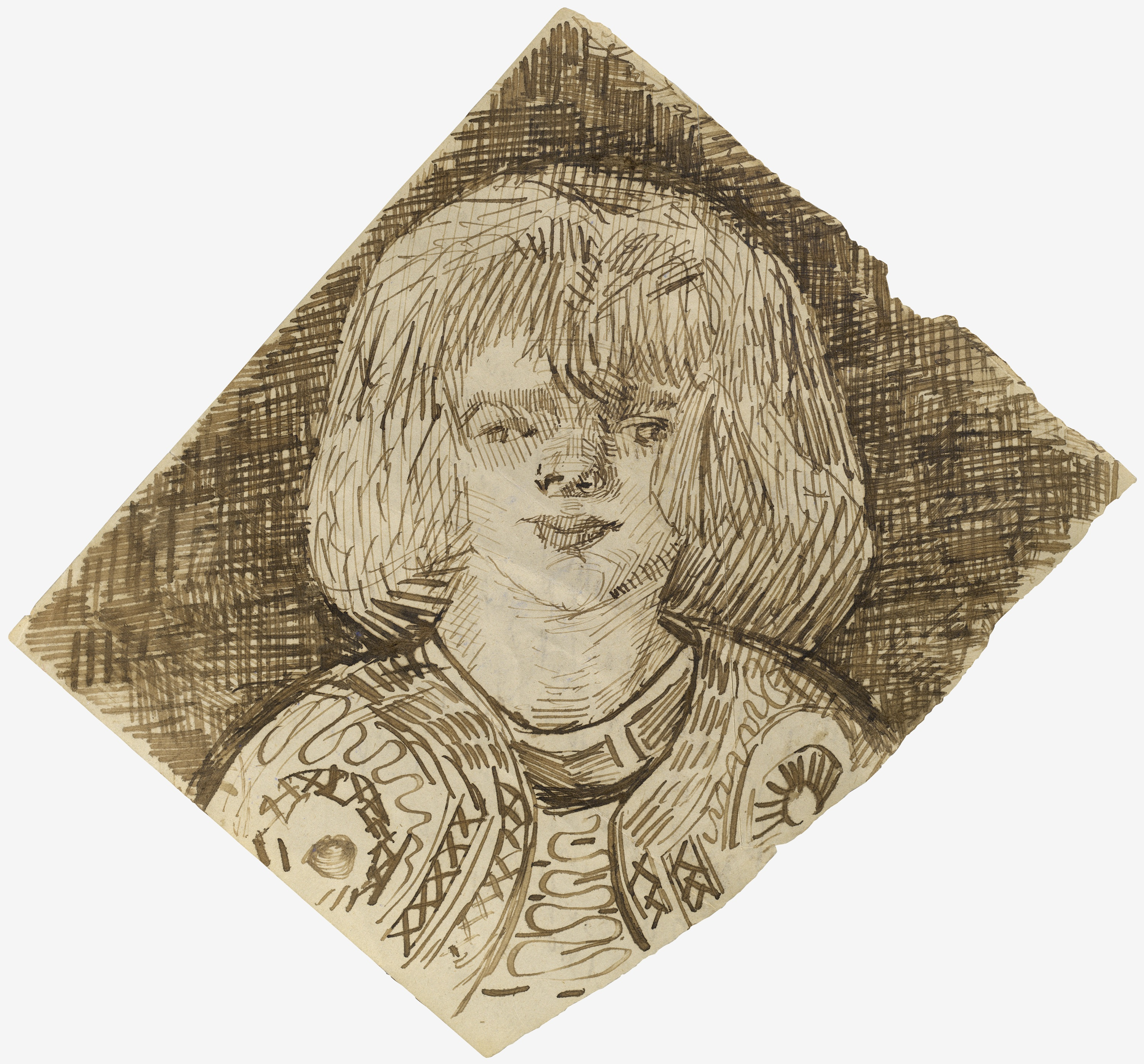 This file was provided to Wikimedia Commons by the Solomon R. Guggenheim Museum as part of a cooperation project. The Solomon R. Guggenheim Museum provides images depicting artworks which are public domain or licensed under a free license.